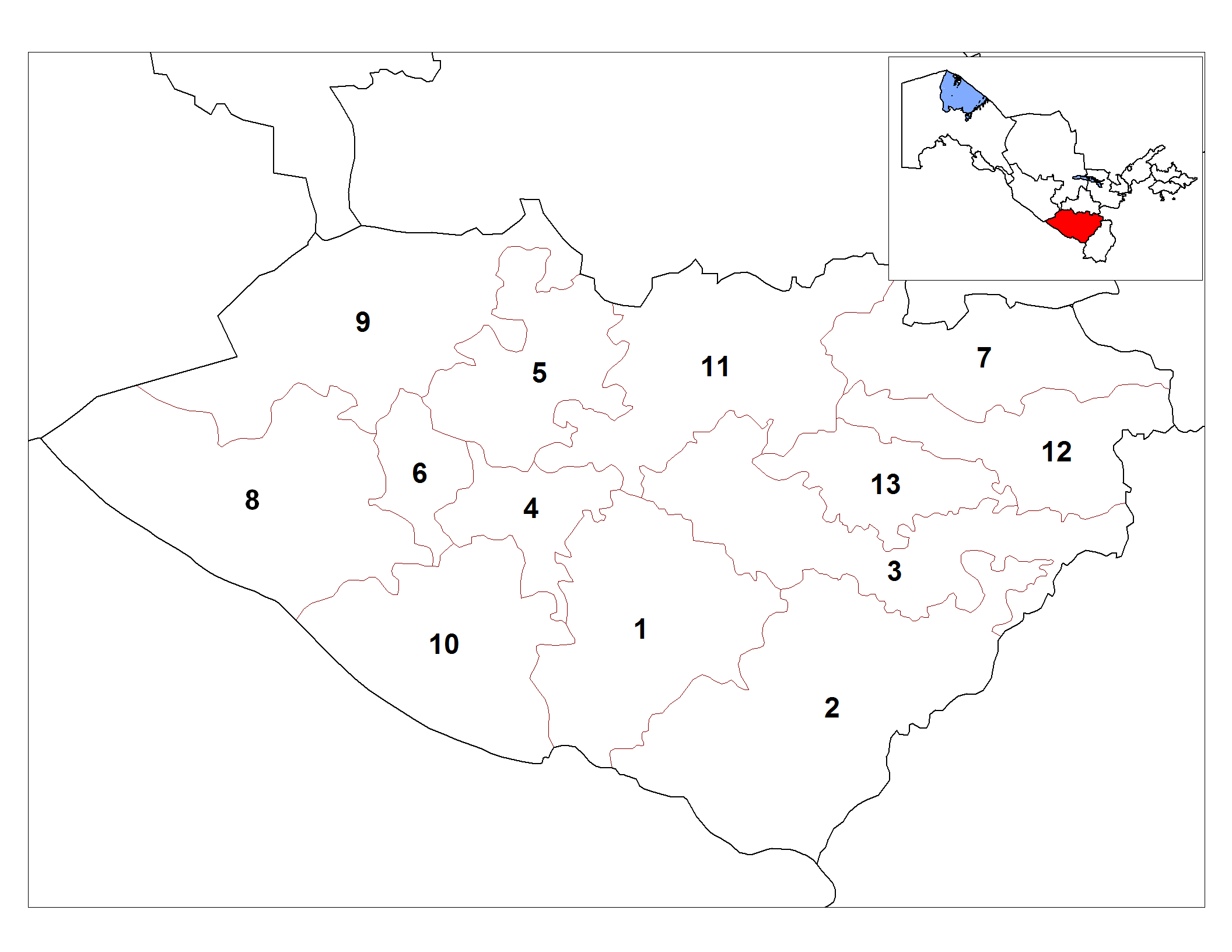 Map of the districts of the province of Qashqadaryo in Uzbekistan with numbers.